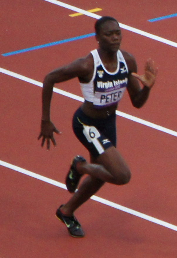 London 2012 Olympics Athletics